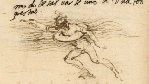 Sketch of a lifebelt by Leonardo da Vinci (Paris Manuscript B, f. 81 v)